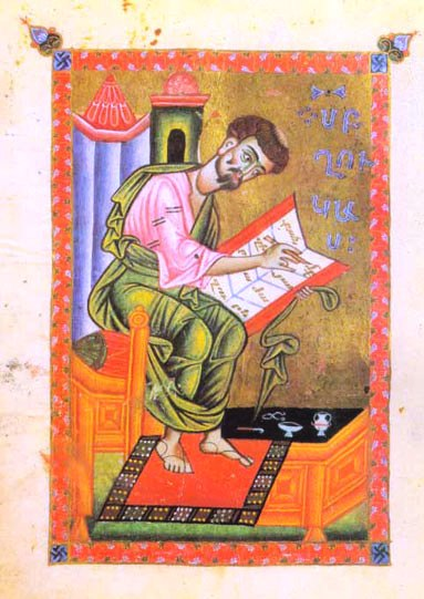 St. Luke, from The Gospels, Hromkla monastery, illuminator unknown, 1251